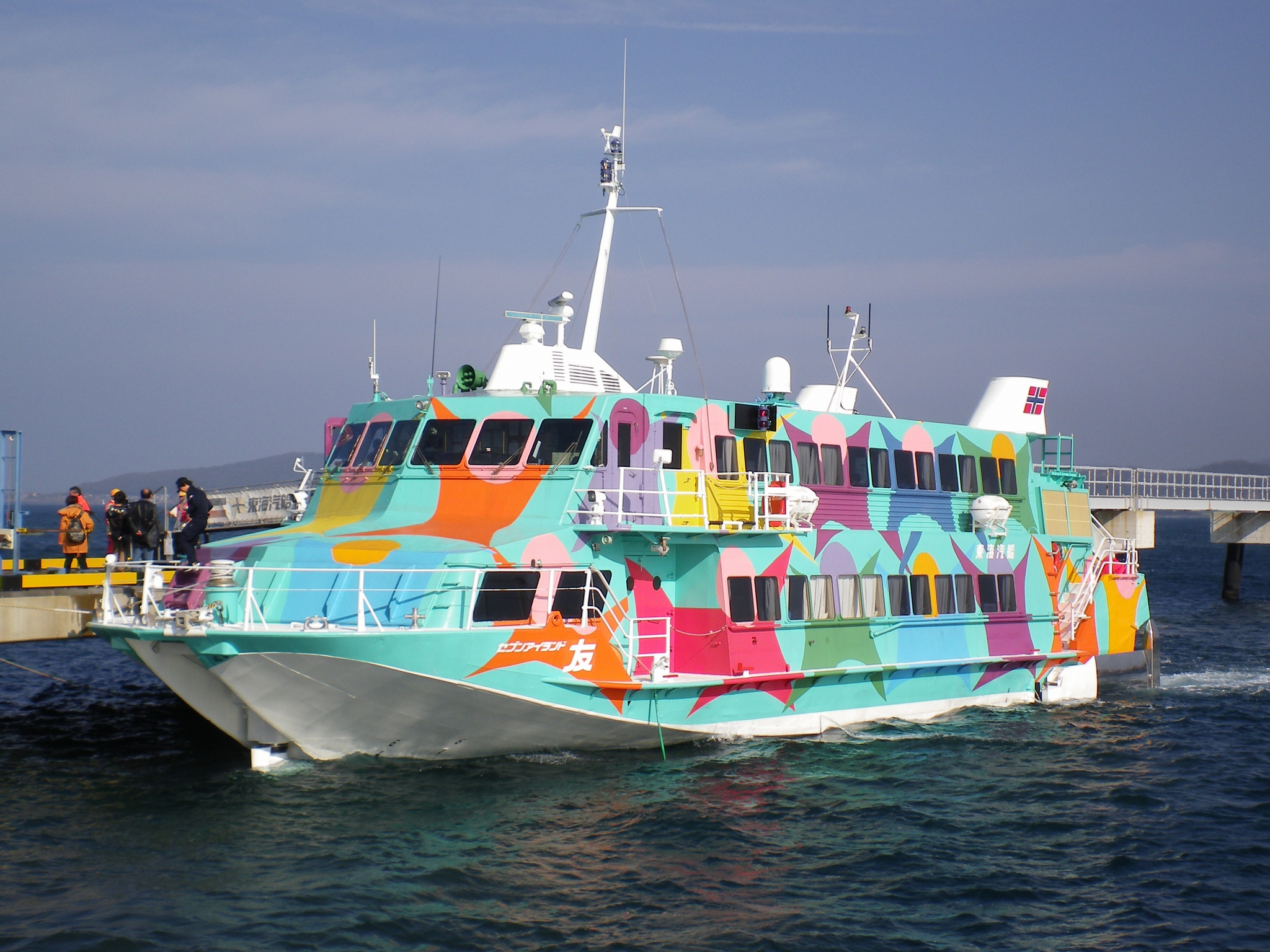 Seven Island Tomo operated by Tokai Kisen at the Port of Tateyama in Chiba Prefecture, Japan